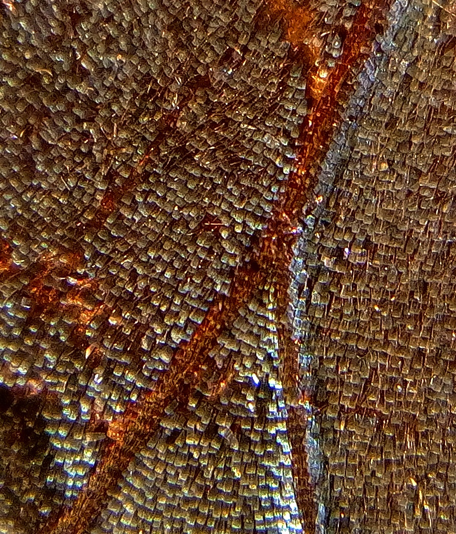 Macro photograph of a Blue Oakleaf Kallima horsfieldii butterfly wing showing scales. Clicked by Dr. Raju Kasambe in BNHS Conservation Education Centre, Goregaon, Mumbai. Sanjay Gandhi National Park. Lepidoptera wings.